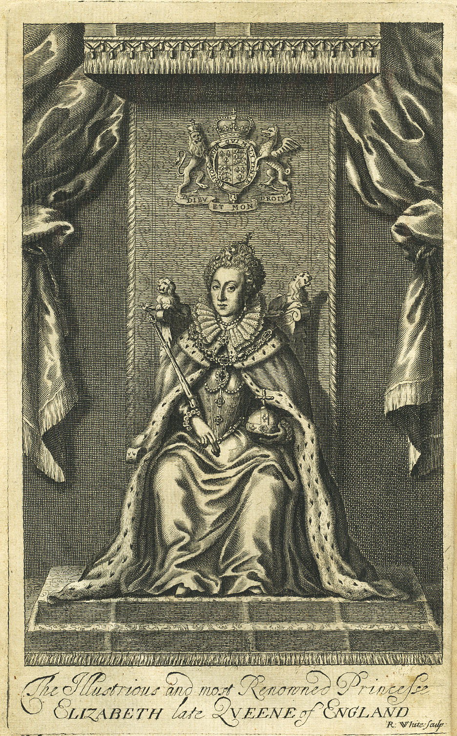 A 17th-century engraving of Queen Elizabeth I from a 1675 edition of History of the Most Renowned and Victorious Princess Elizabeth, Late Queen of England by William Camden